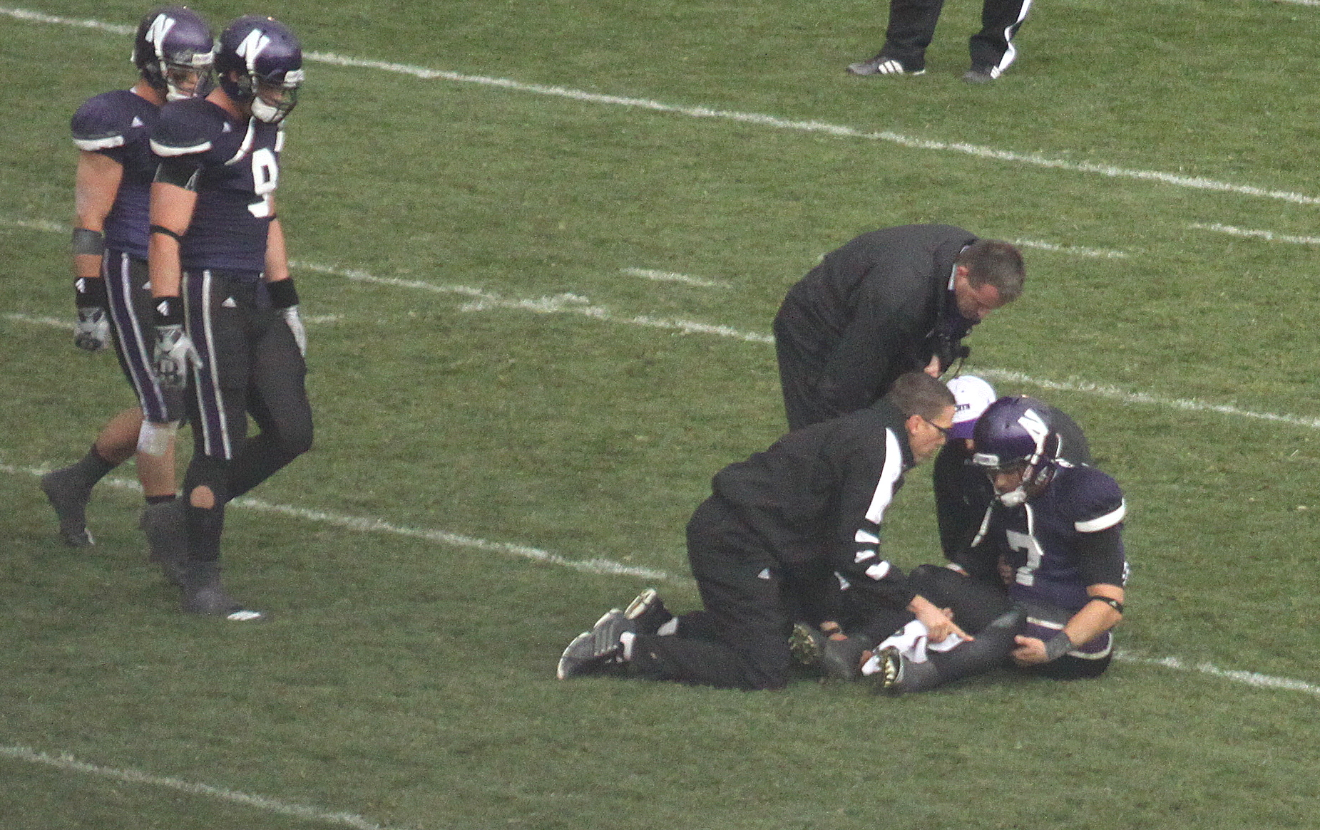 Dan Persa ruptured his Achilles' tendon while throwing the game-winning pass, and host Northwestern handed Associated Press No. 13 Iowa another devastating loss, beating the Hawkeyes 21-17 on Saturday